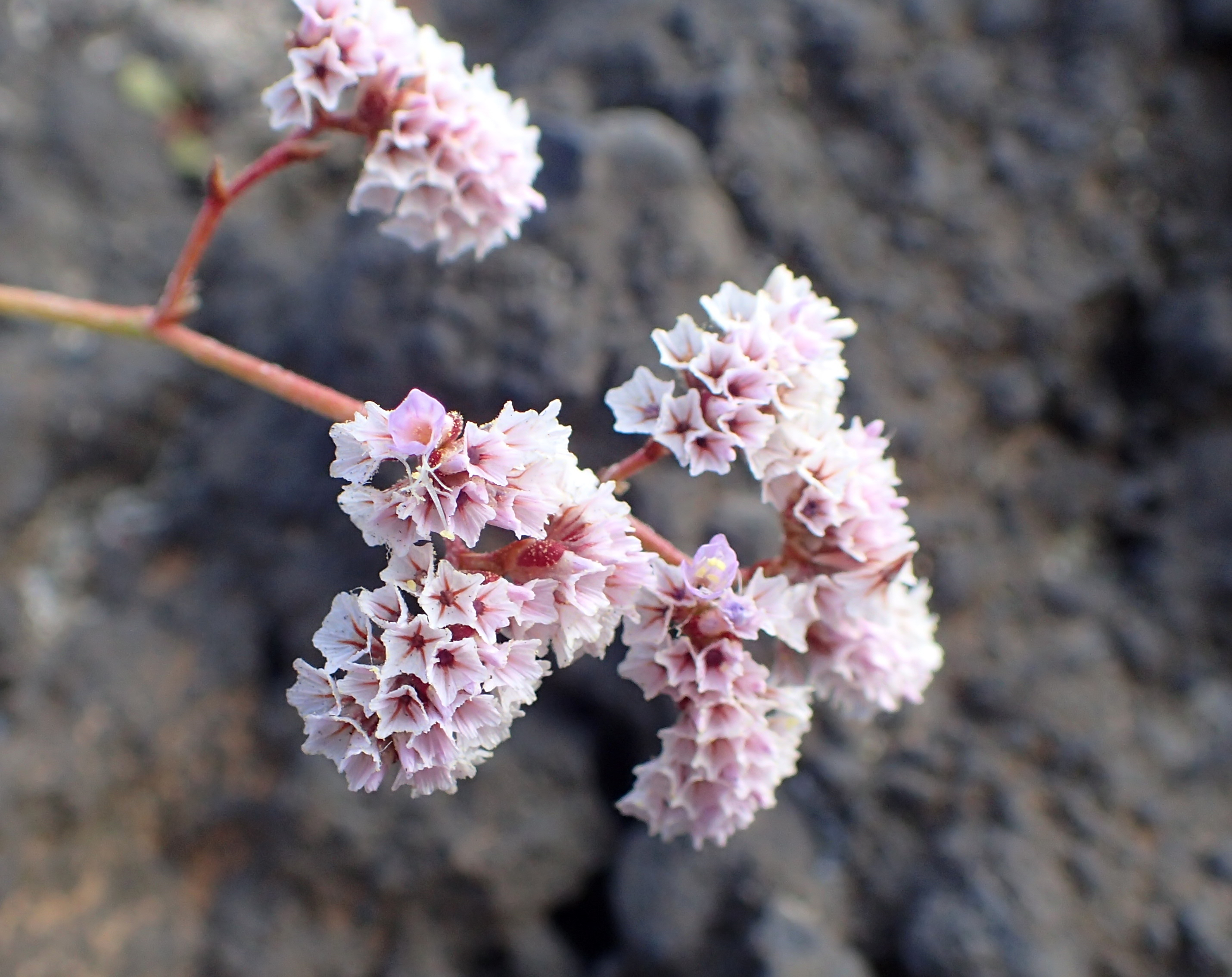 Limonium pectinatum in Garachico, Tenerife, Canary Islands